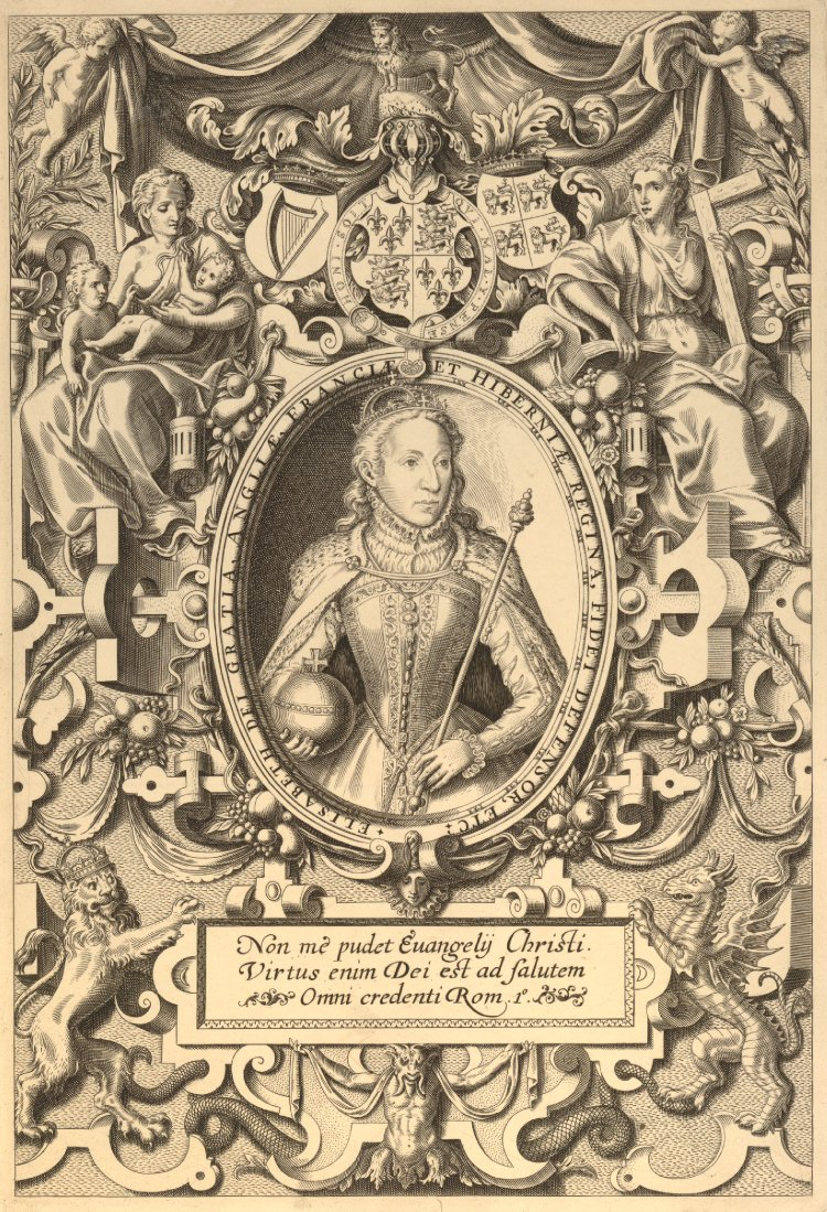 Frontispiece to the Bishops Bible of 1568 showing Elizabeth I holding the orb and sceptre in a border of strap-work, with the figures of Faith and Charity, and the royal coat of arms.